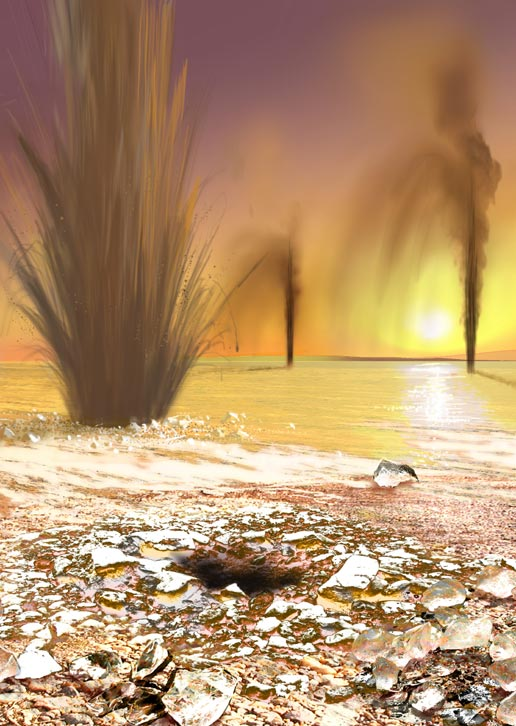 Artist concept showing sand-laden jets (Geysers on Mars) shoot into the Martian polar sky.